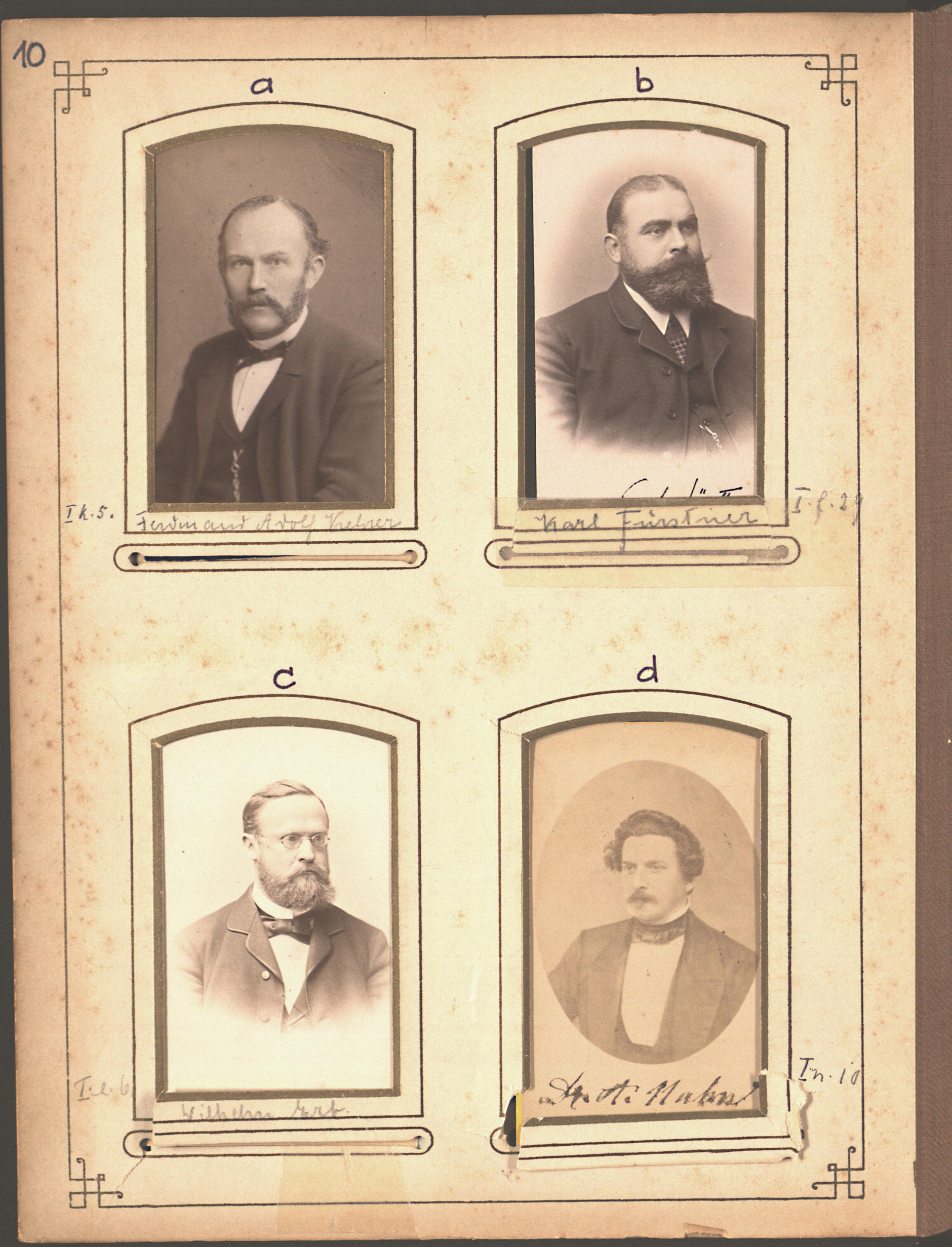 Depicting a: Kehrer, Ferdinand (Adolf). b: Fürstner, Karl (Ludwig). c: Erb, Wilhelm (Heinrich). d: Nuhn, (Johann) Anton